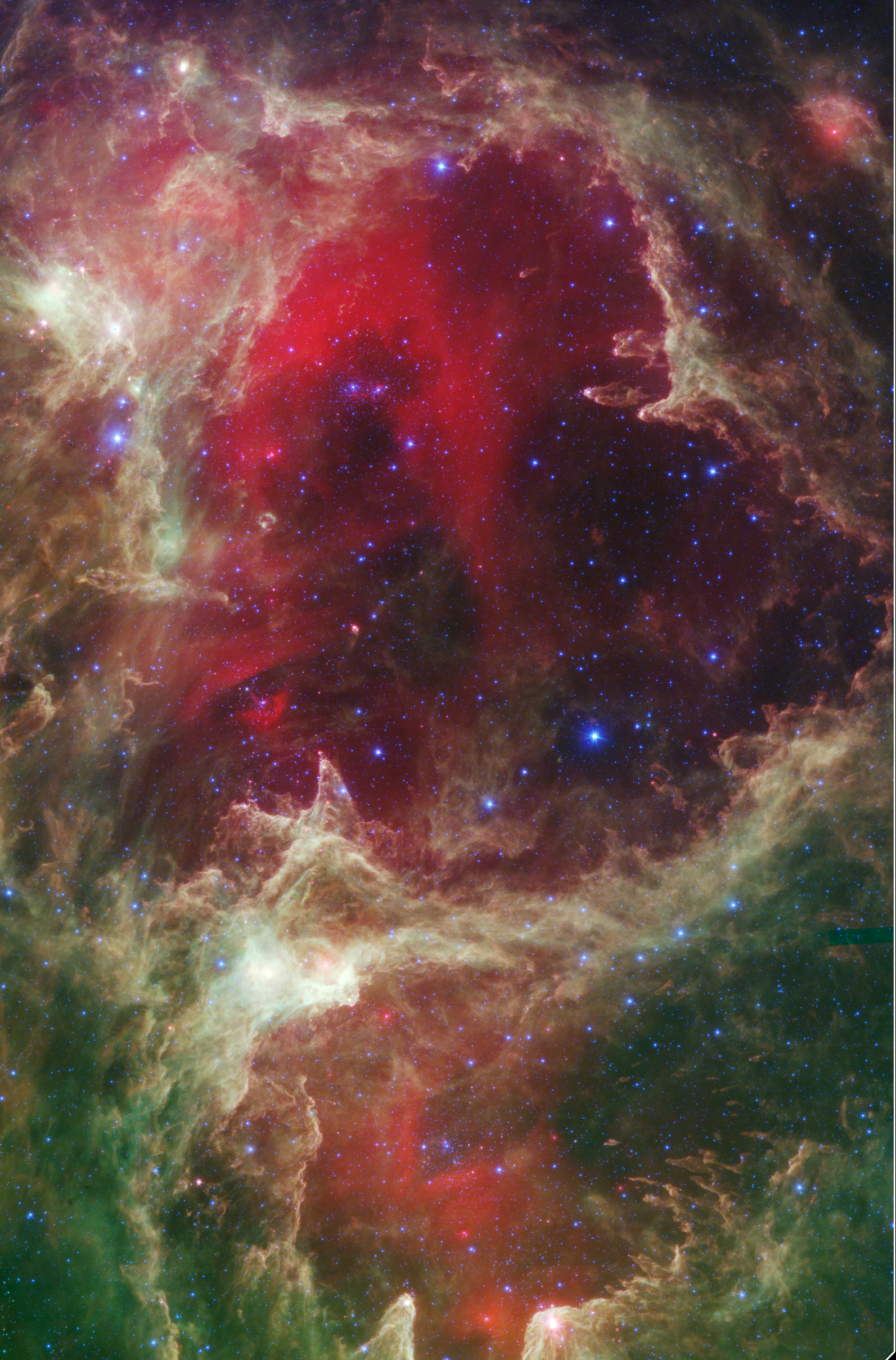 Generations of stars can be seen in this infrared portrait from NASA's Spitzer Space Telescope. In this wispy star-forming region, called W5, the oldest stars can be seen as blue dots in the centers of the two hollow cavities (other blue dots are background and foreground stars not associated with the region). Younger stars line the rims of the cavities, and some can be seen as pink dots at the tips of the elephant-trunk-like pillars. The white knotty areas are where the youngest stars are forming. Red shows heated dust that pervades the region's cavities, while green highlights dense clouds.